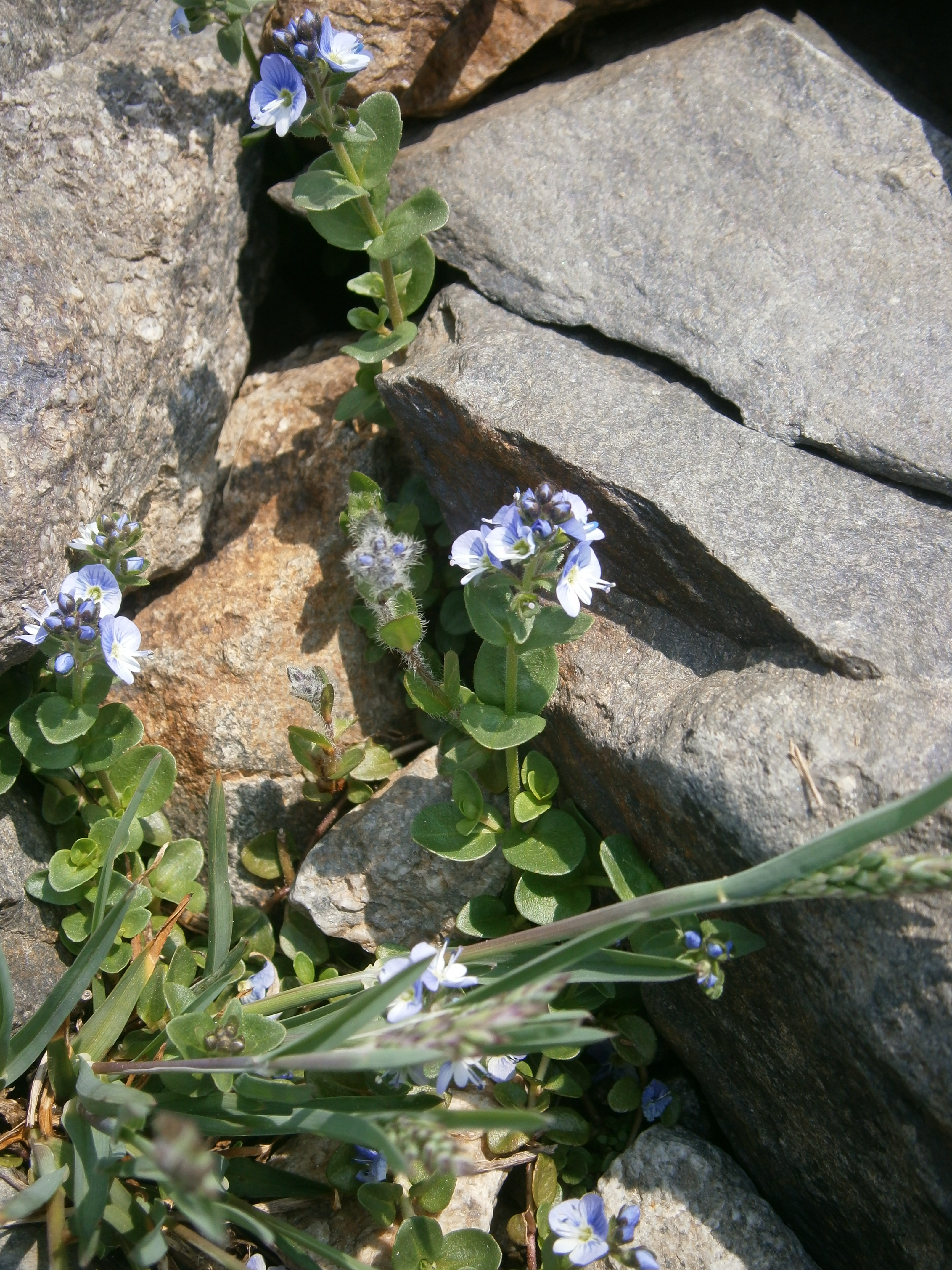 Veronica serpyllifolia subsp. humifusa